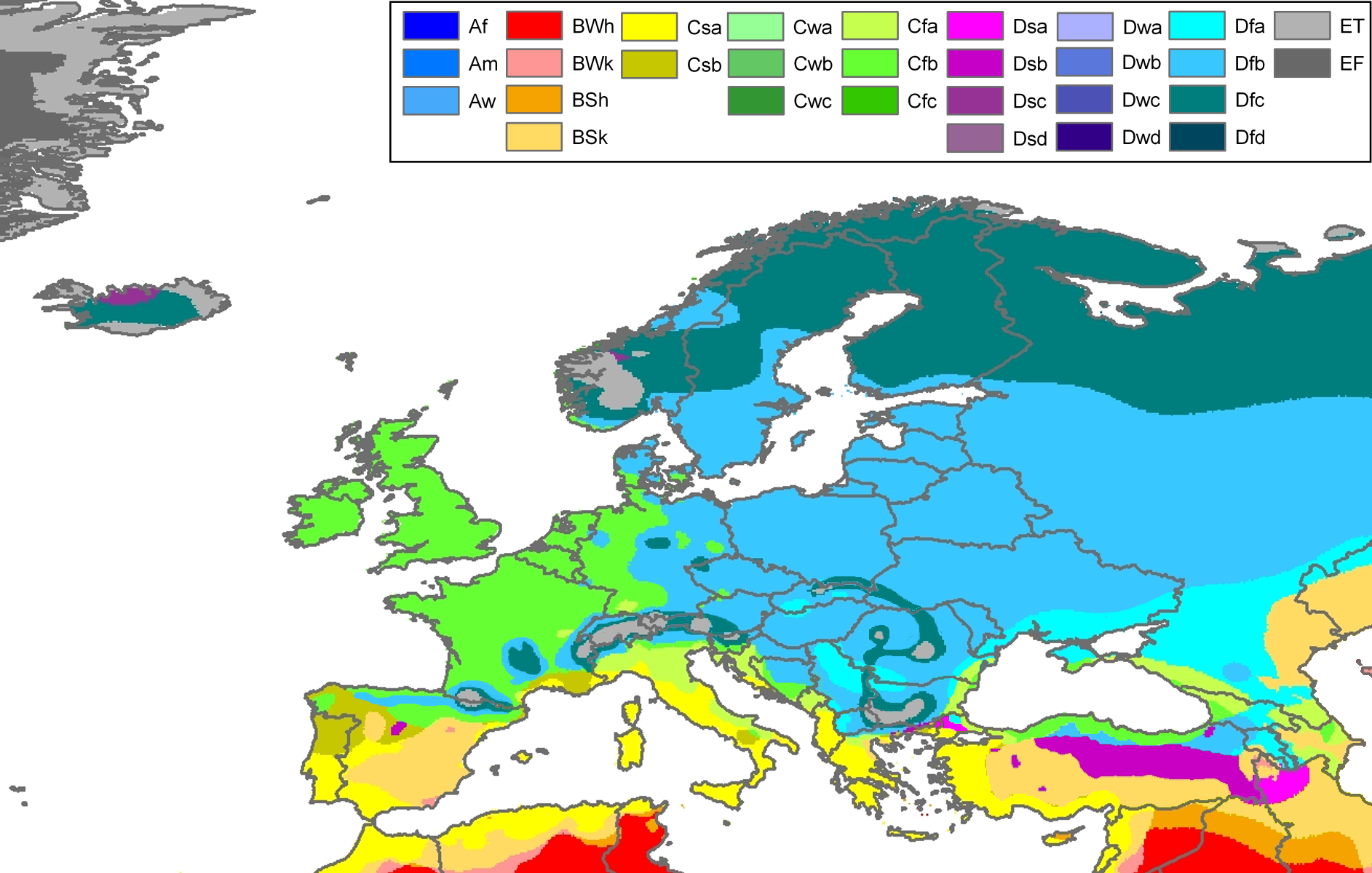 Climate map of Europe (from the "Updated world map of the Köppen-Geiger climate classification").